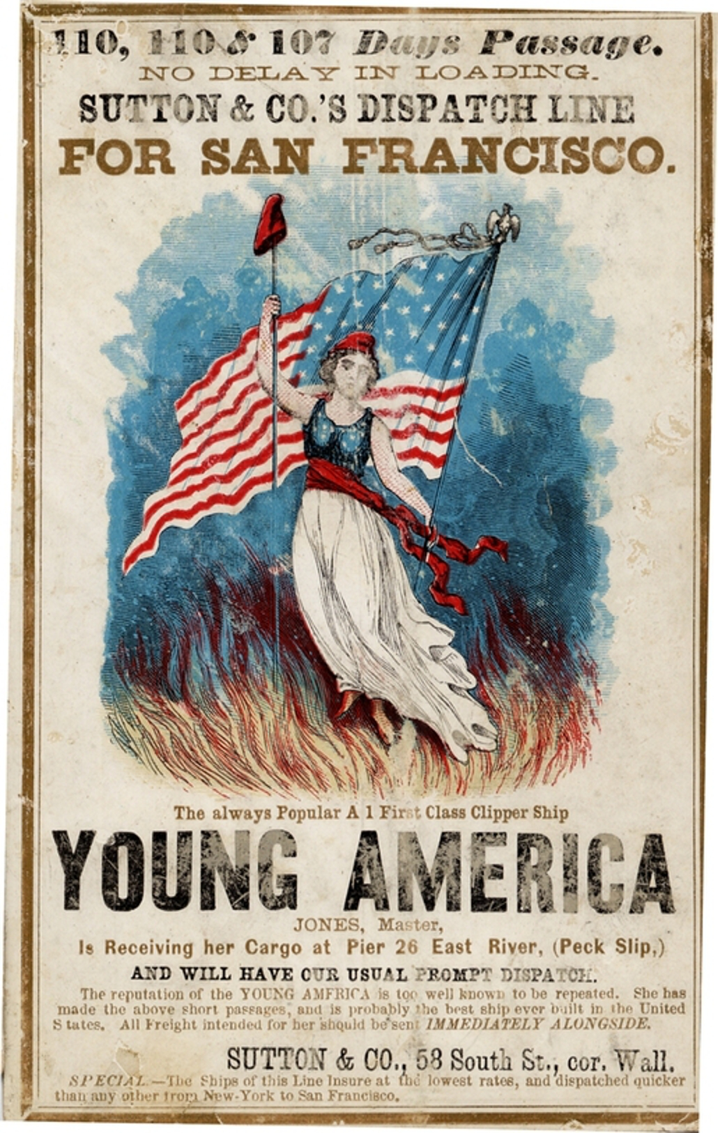 Sailing card for the clipper ship Young America sailing from New York City to San Francisco.